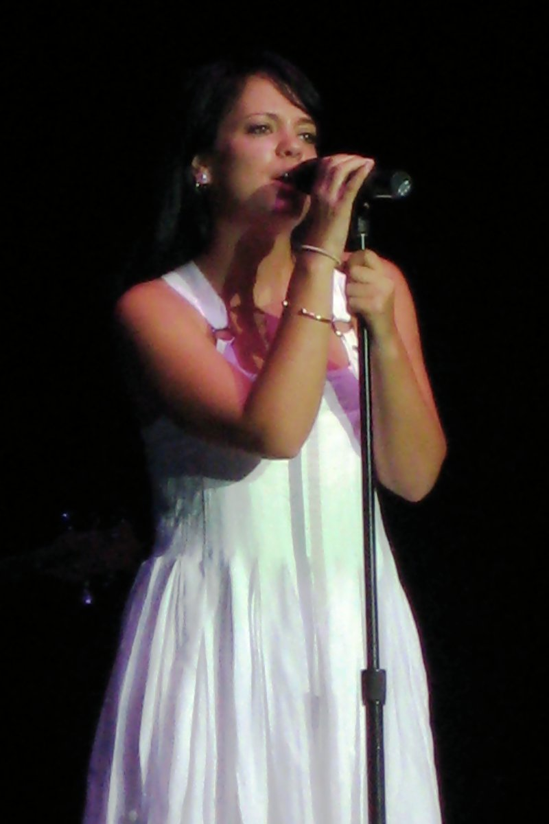 Lily Allen performing at the Roseland Ballroom in Manhattan, New York City, New York, United States